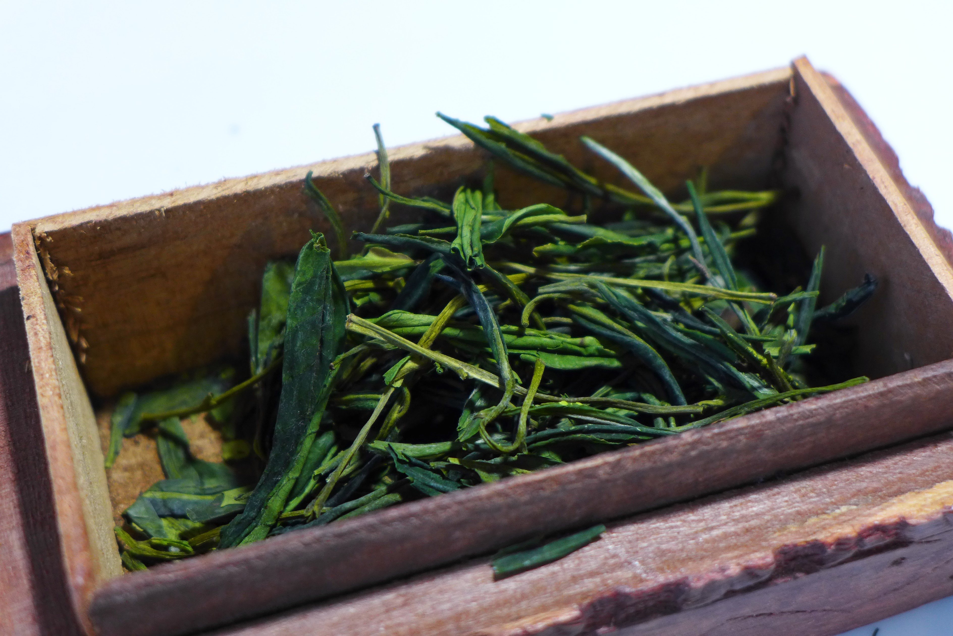 MaoFeng HuangShan 黄山毛峰 安徽